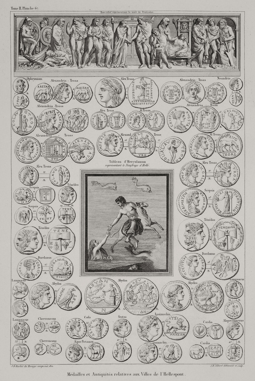 Marie-Gabriel-Florent-Auguste Comte de Choiseul-Gouffier. Voyage pittoresque de la Grèce. Paris, J.-J. Blaise M.DCCC.IX, (1782 1st volume, 1809 2nd volume, 1822 3rd volume, 1842 2nd edition)